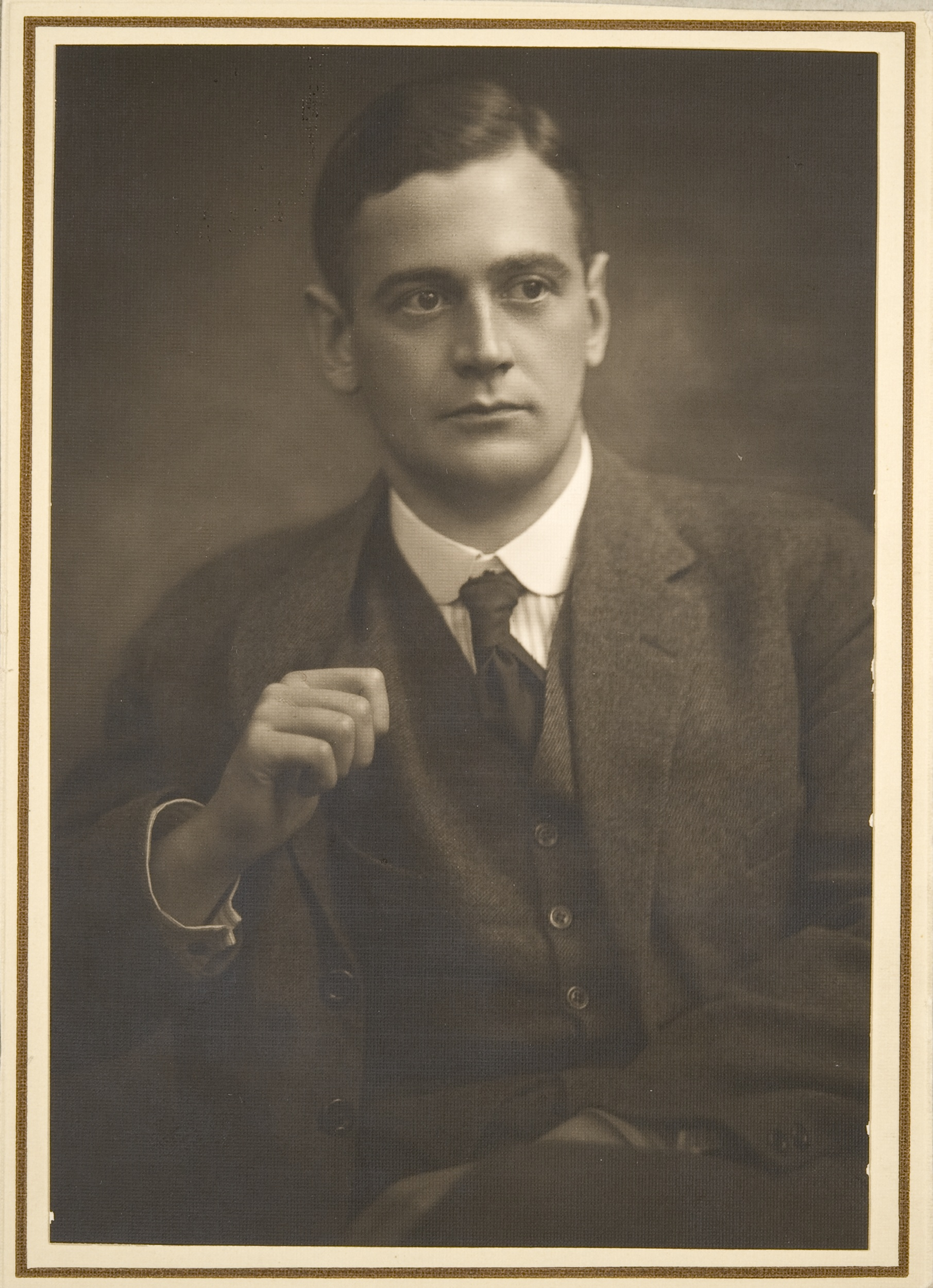 Photograph of the Finnish actor Paavo Jännes (1892–1970).